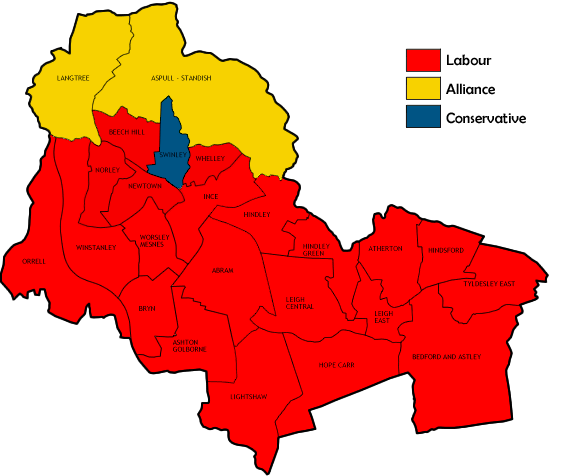 Wigan ward map with political colouring.